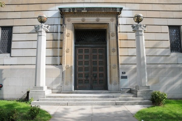 front door of Montreal Masonic Memorial Temple